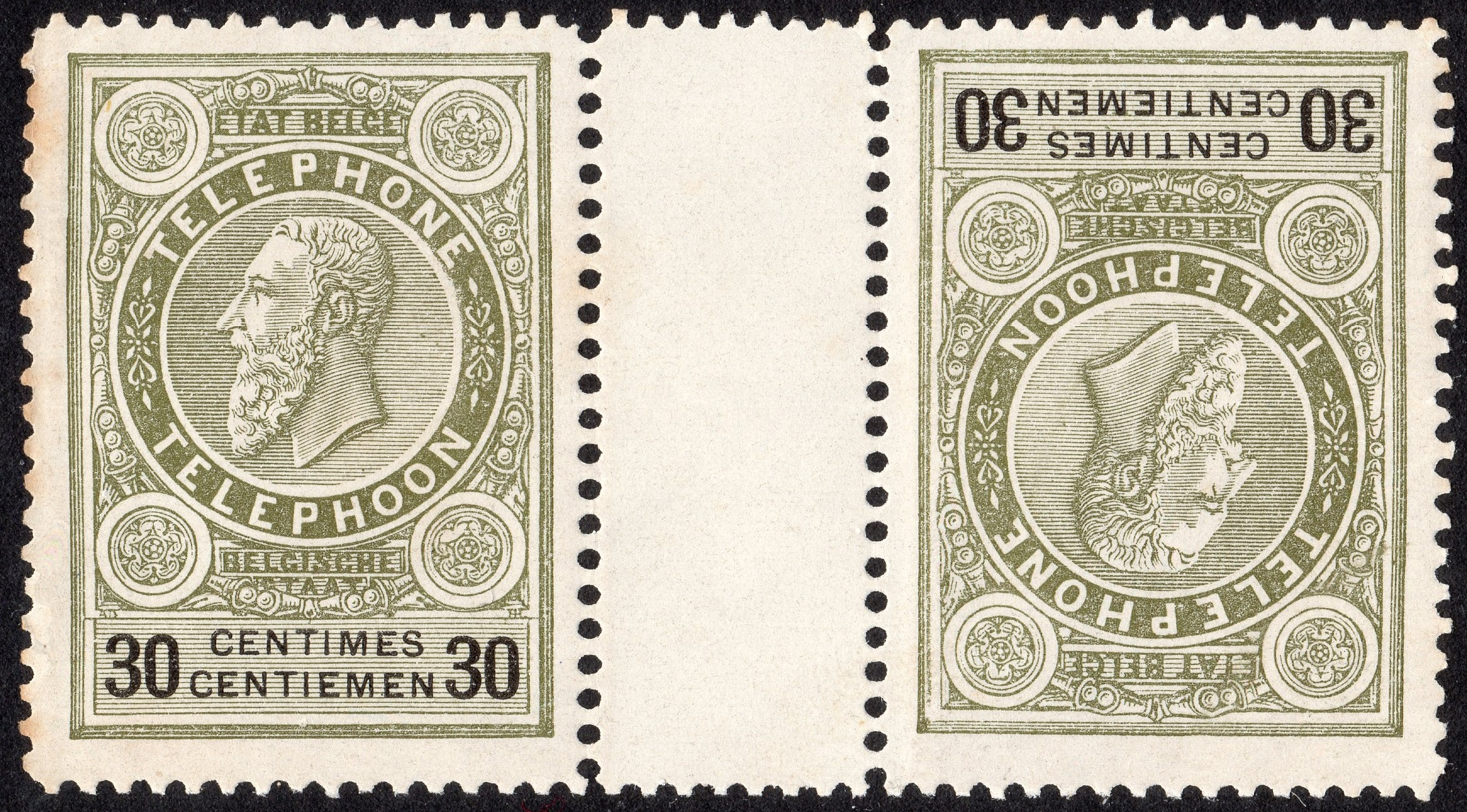 1892 tete-beche 30c telephone stamps of Belgium.